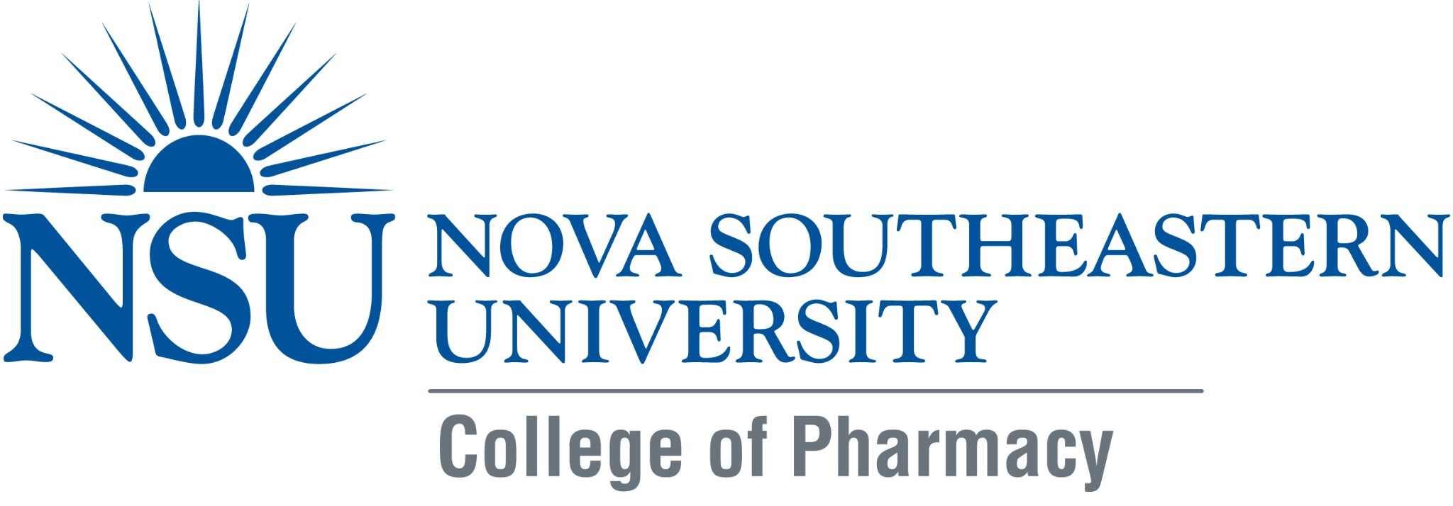 Nova Southeastern University College of Pharmacy logo